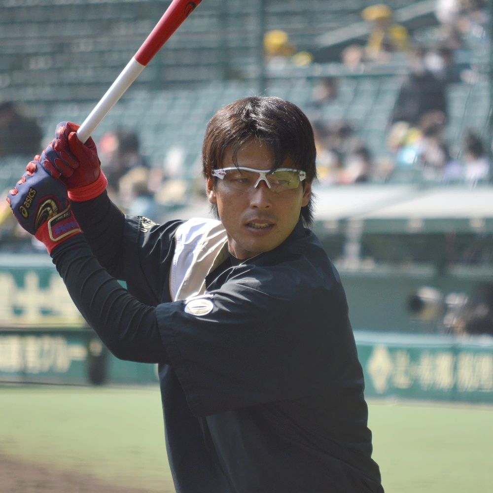 NF-Syogo-Akada20130309